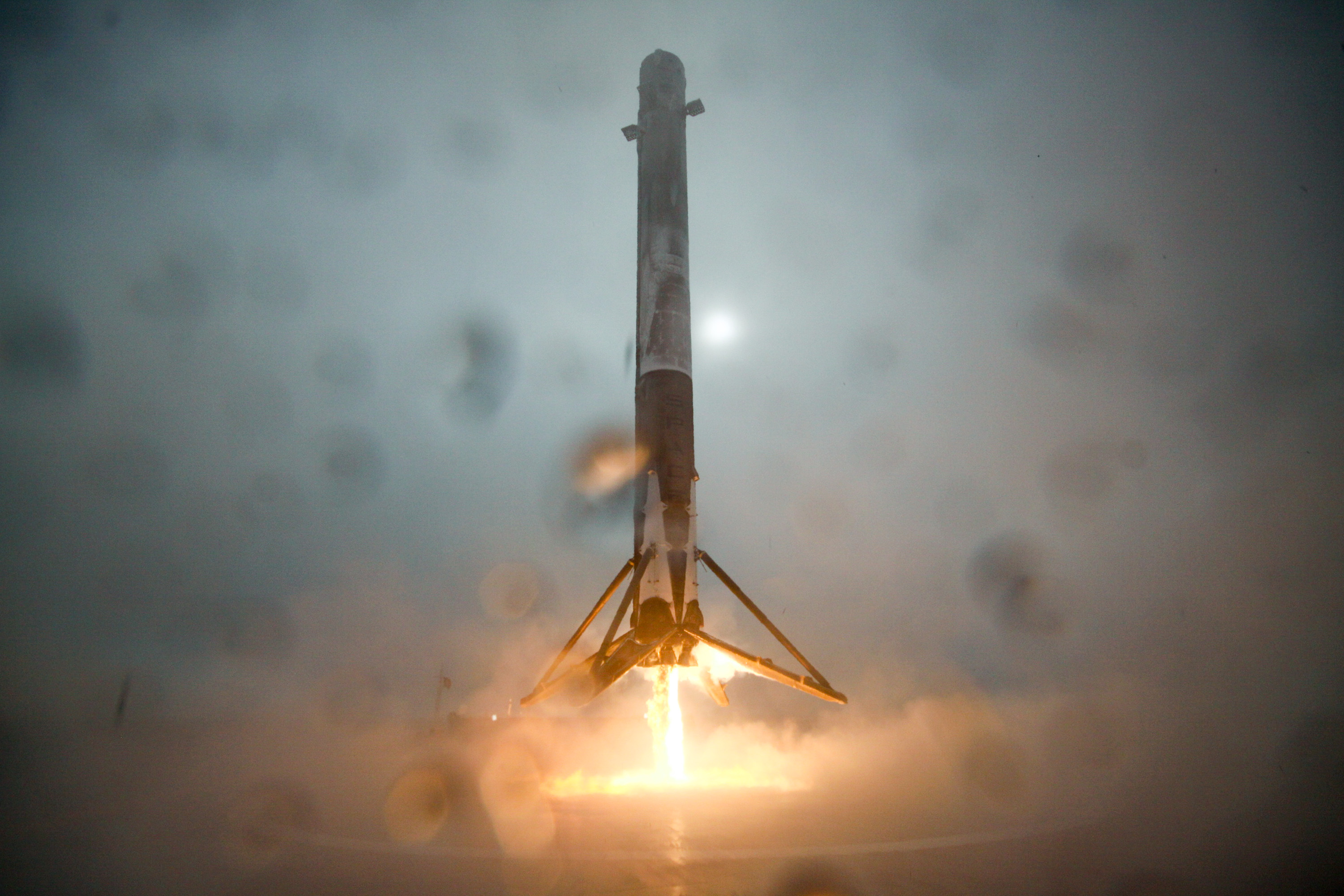 First stage approaches center of landing droneship in Pacific